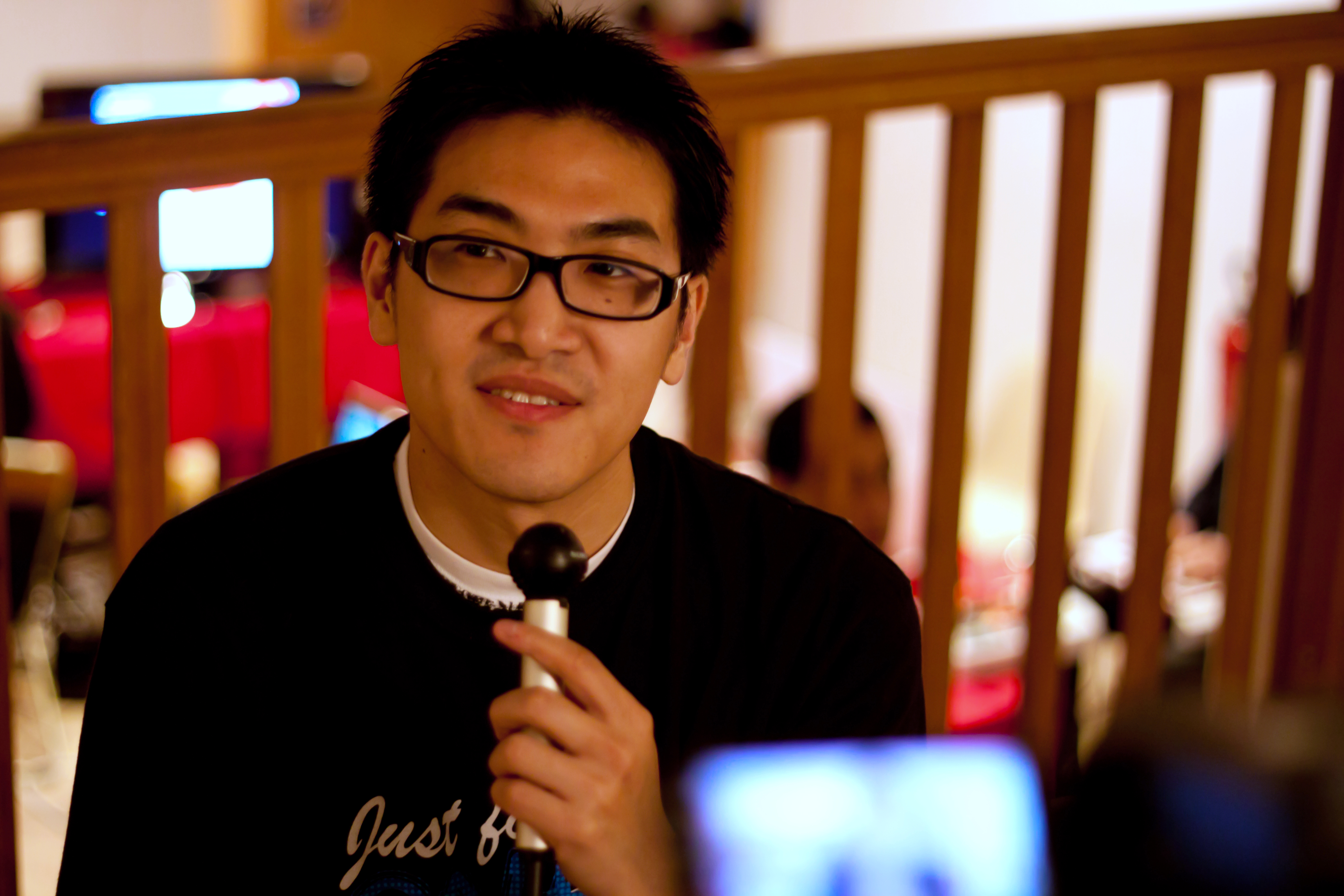 Bruce Yu-lin Hsiang (GamerBee) at Bushido International in December 2010.